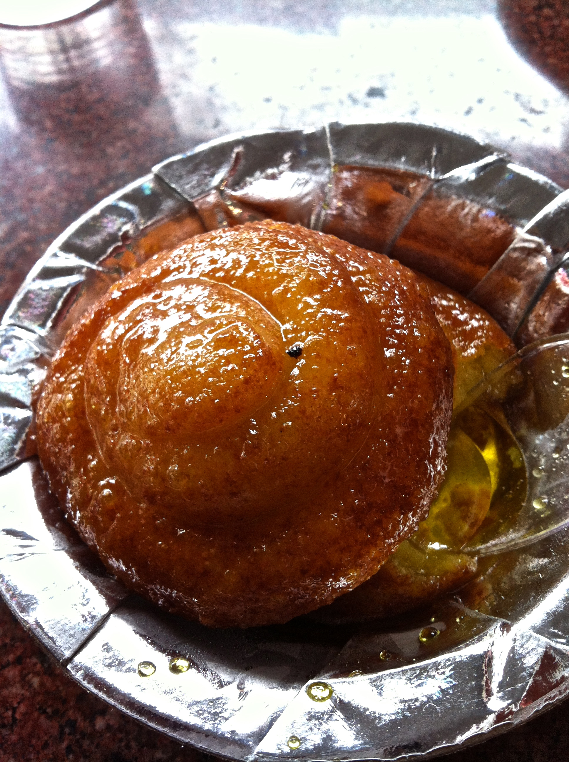 Chenajhili, a traditional Odia dessert. ଓଡ଼ିଆ: ଛେନାଝିଲି ଏକ ପାରମ୍ପାରିକ ଓଡ଼ିଆ ମିଠା । ଏହା ଛେନାଓ ଚିନିରେ ତିଆରି । This media file is uploaded with Odia loves Wikipedia